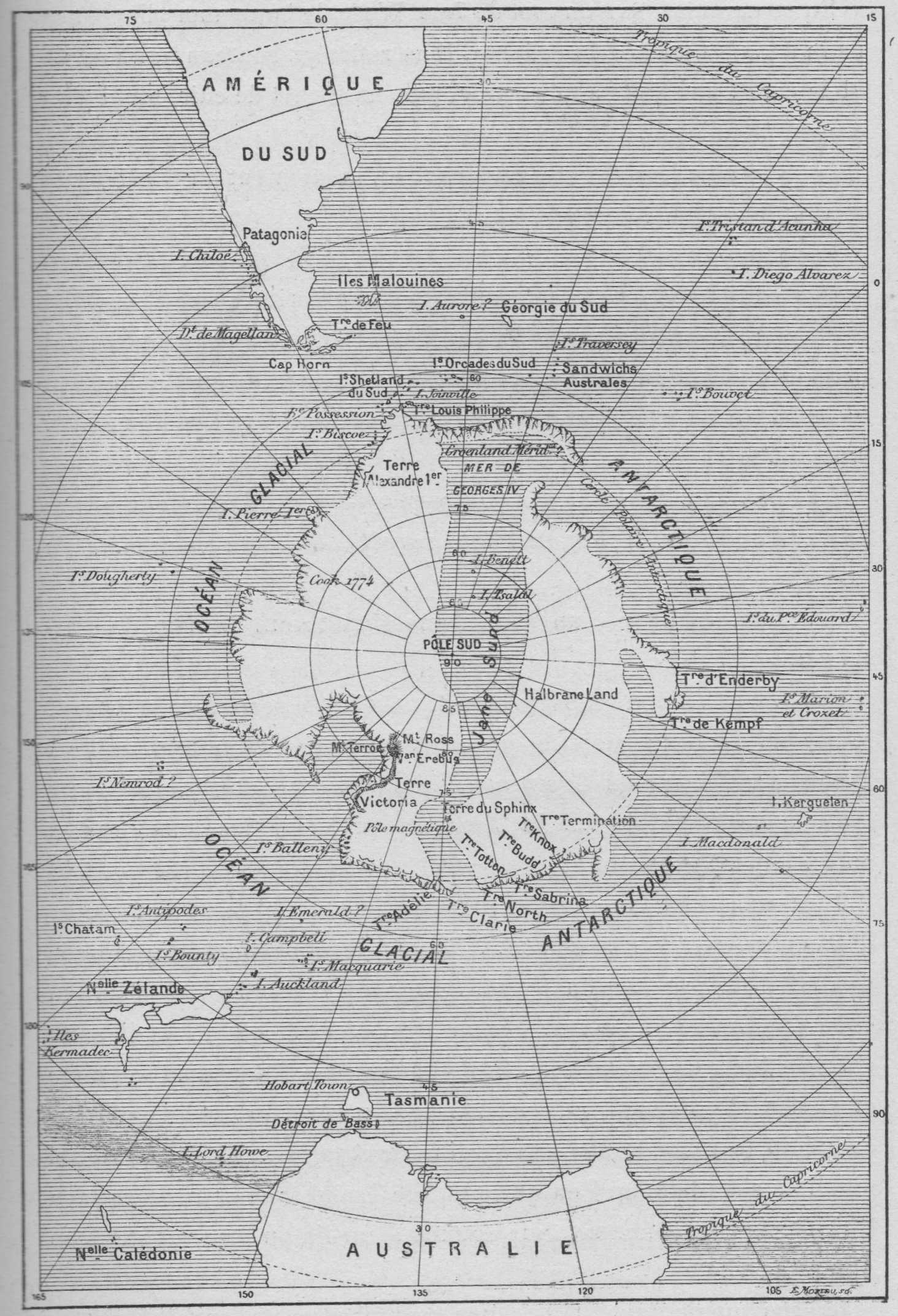 Map od French edition of book "The Sphinx of the Ice Fields", ilustration George Rouxe.